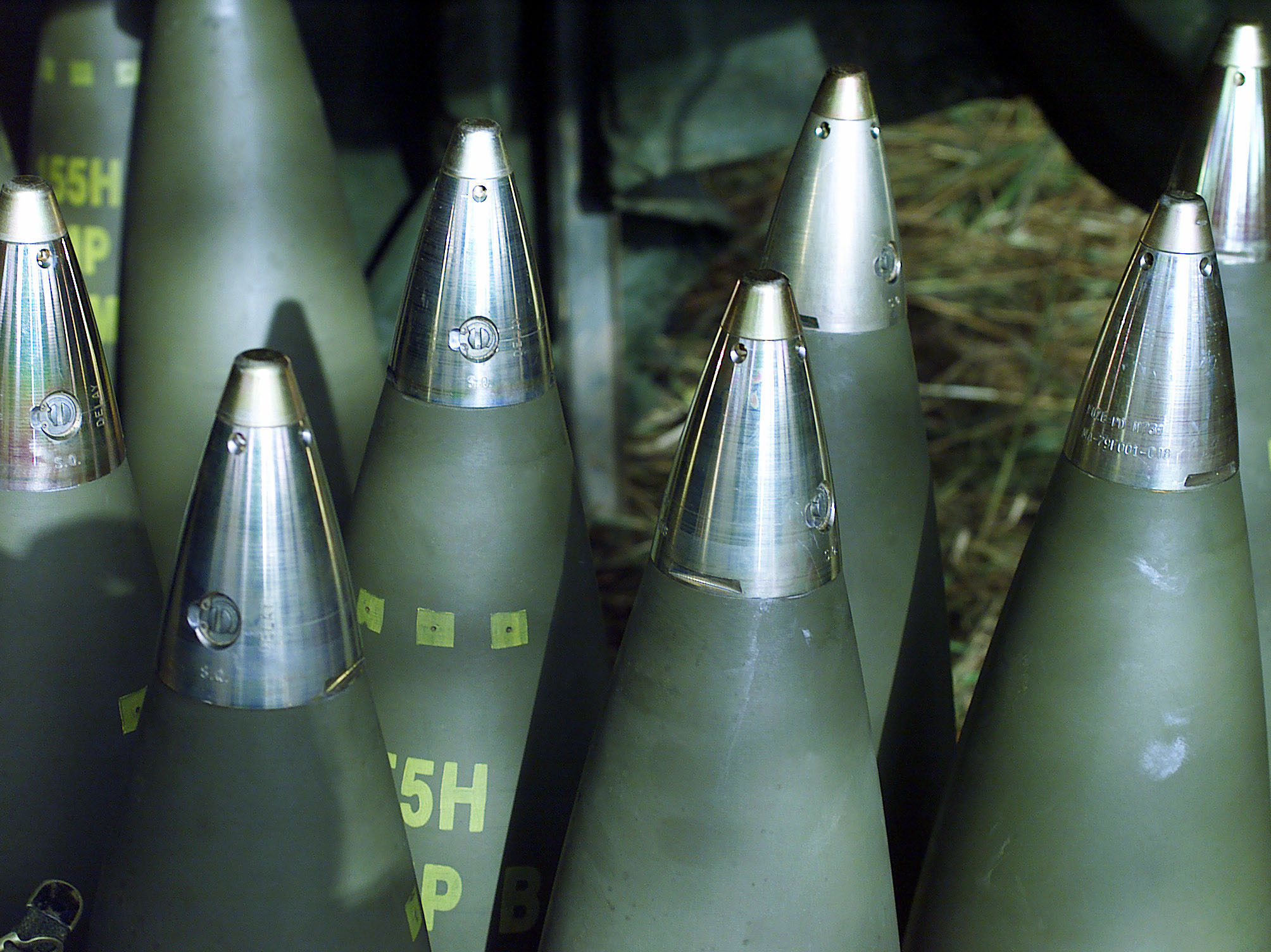 Several M107 155mm High Explosive Projectiles, fuzed with M739 Point Detonating Super Quick fuzes, are ready to fire from the M198 155mm Medium Towed Howitzer at Gun Position 10, East Camp Fuji, Japan.